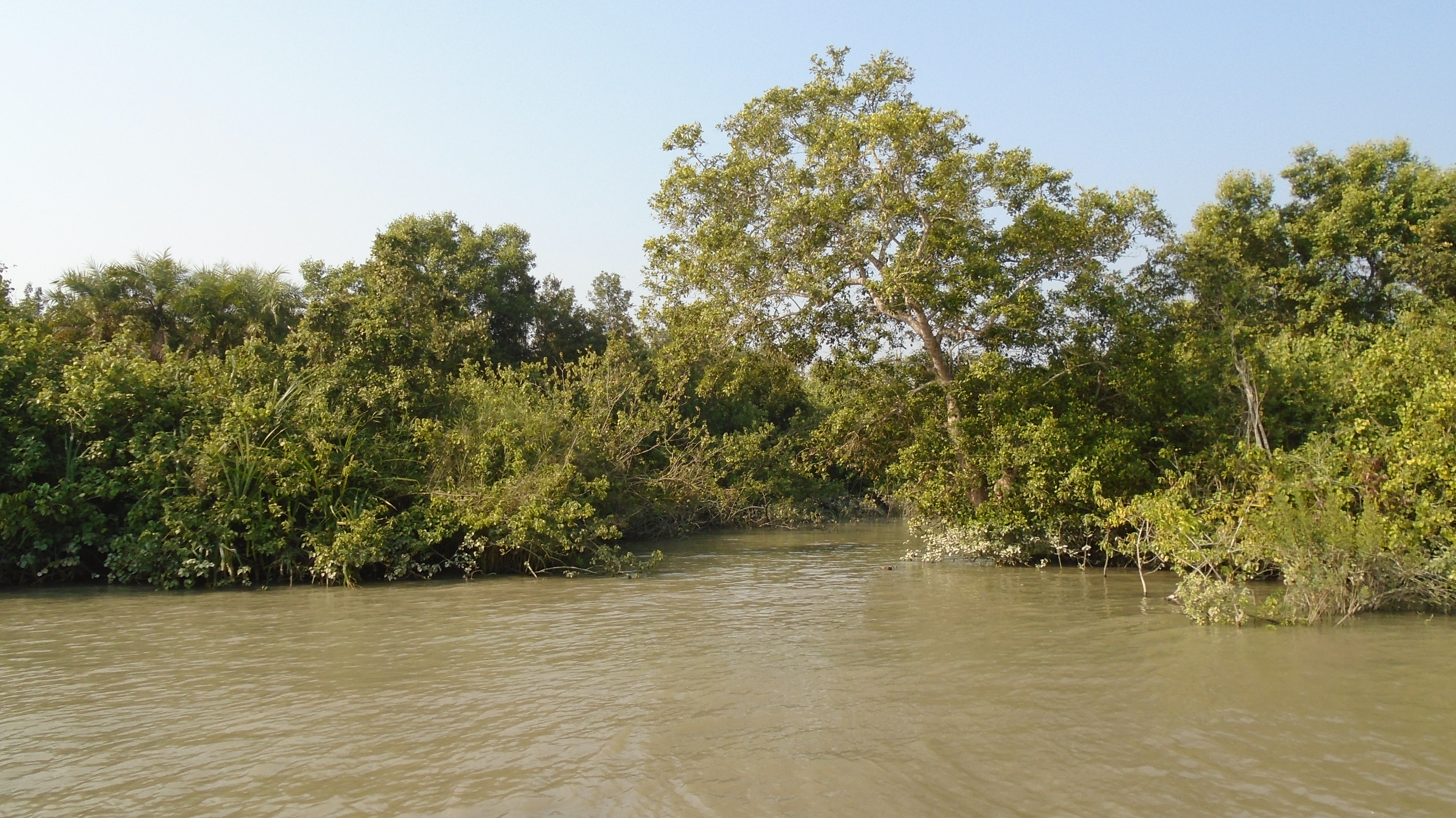 This picture was taken from Sundarban.